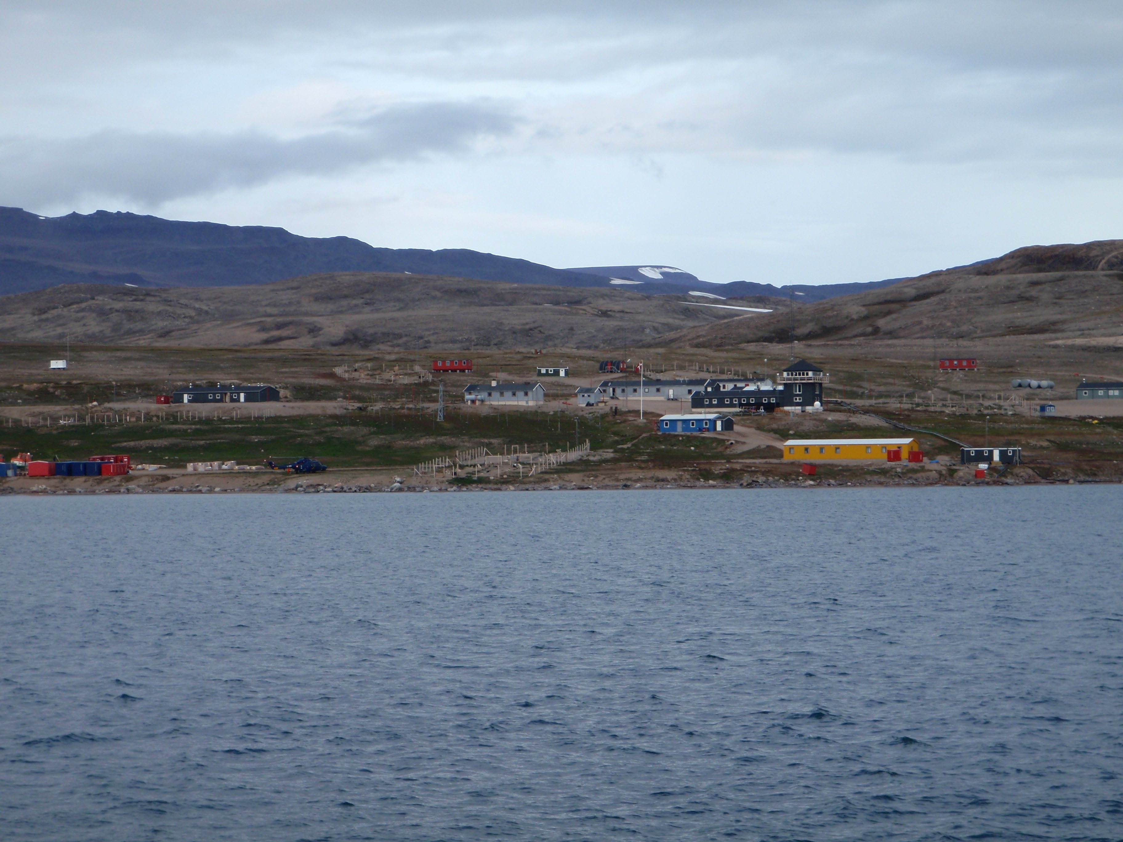 Daneborg seen from the south